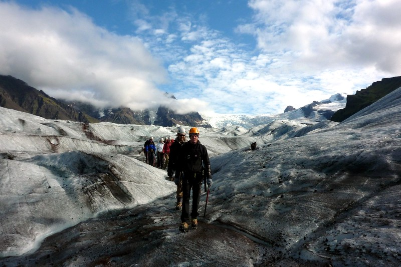 Glacier walk on Svínafellsjökull.